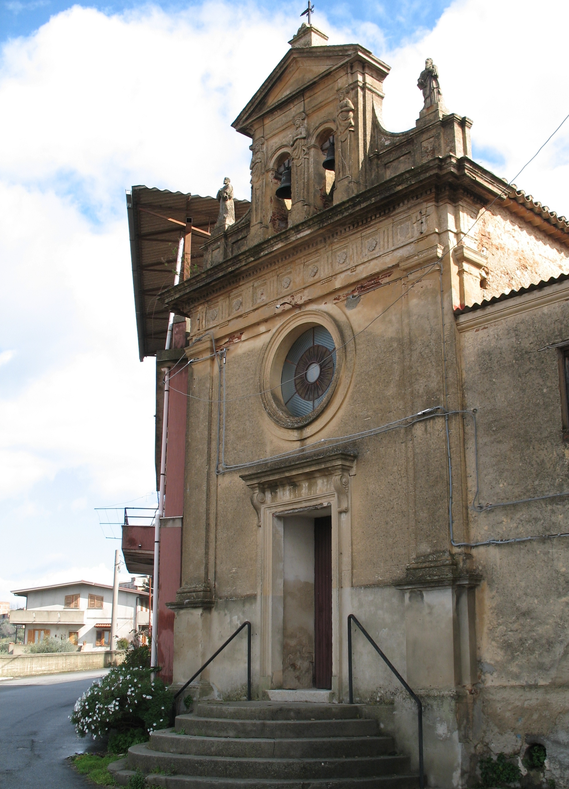 The St. Francis of Paola Church in Via Belvedere, Laureana di Borrello, Calabria